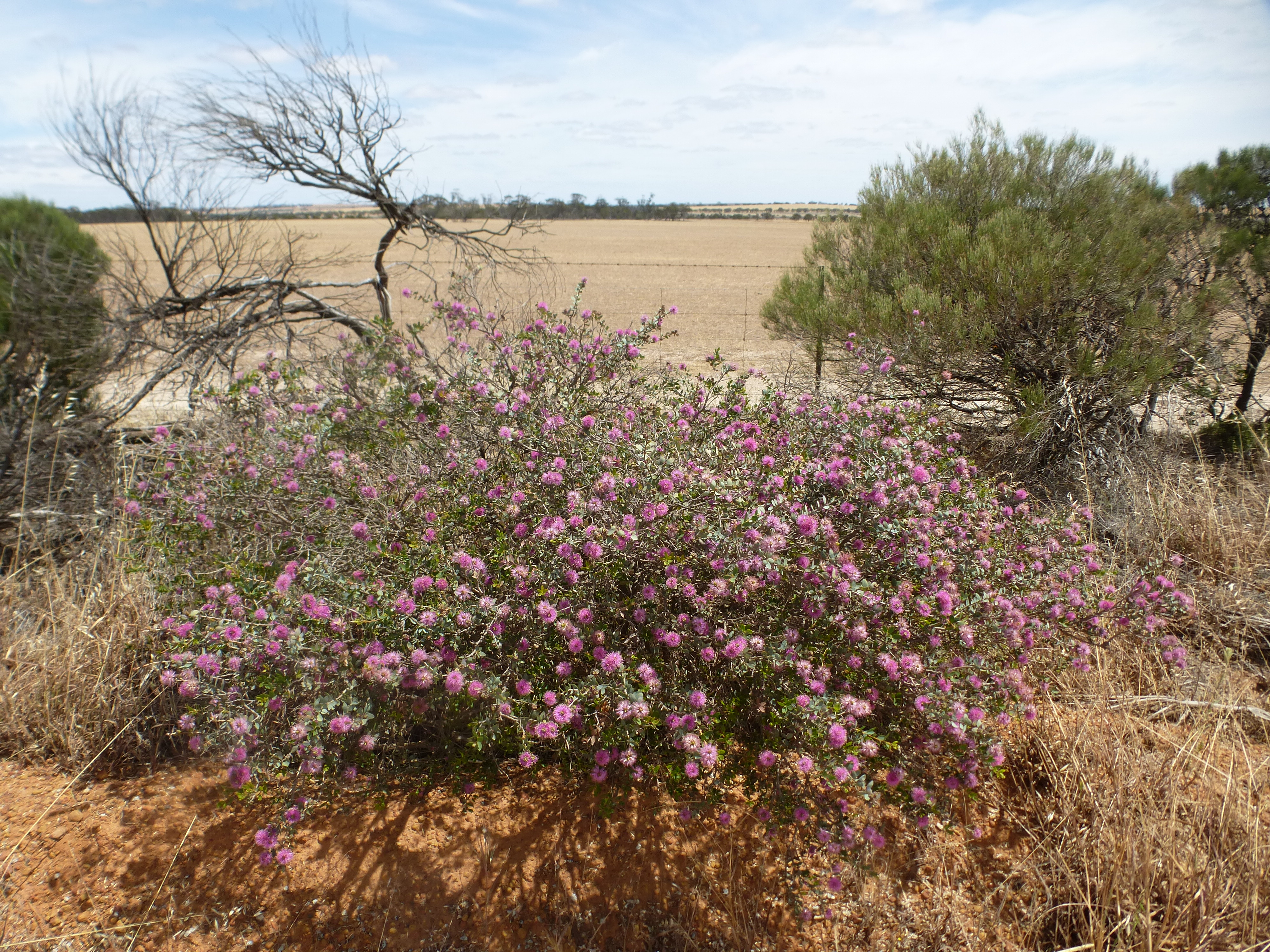 Melaleuca conothamnoides growing near Tammin